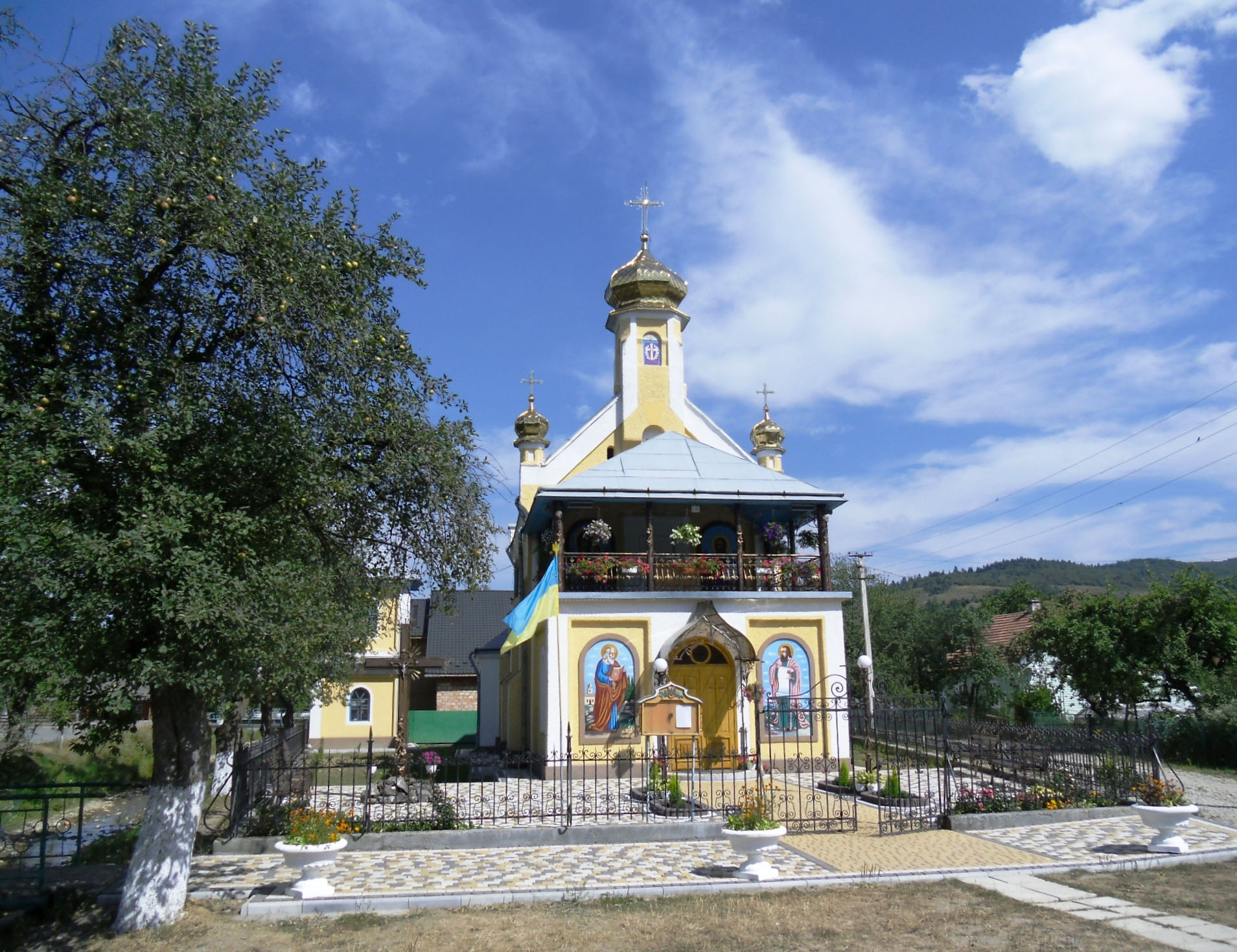 Church of Saints Peter and Paul UGCC. Spas village, Staryi Sambir Raion